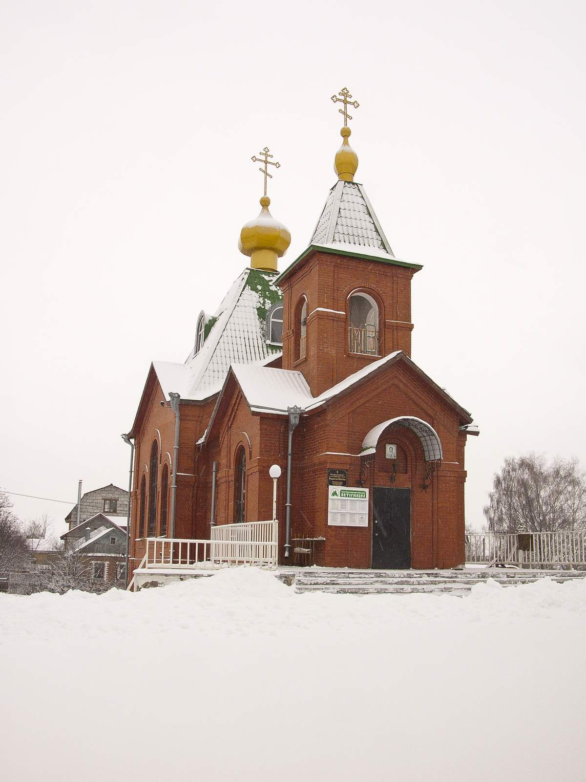 Troitsky church, Lukhovitsy